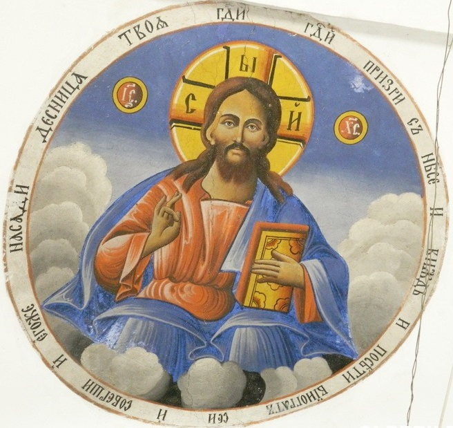 Jesus Fresco in Malo Ruvci Church